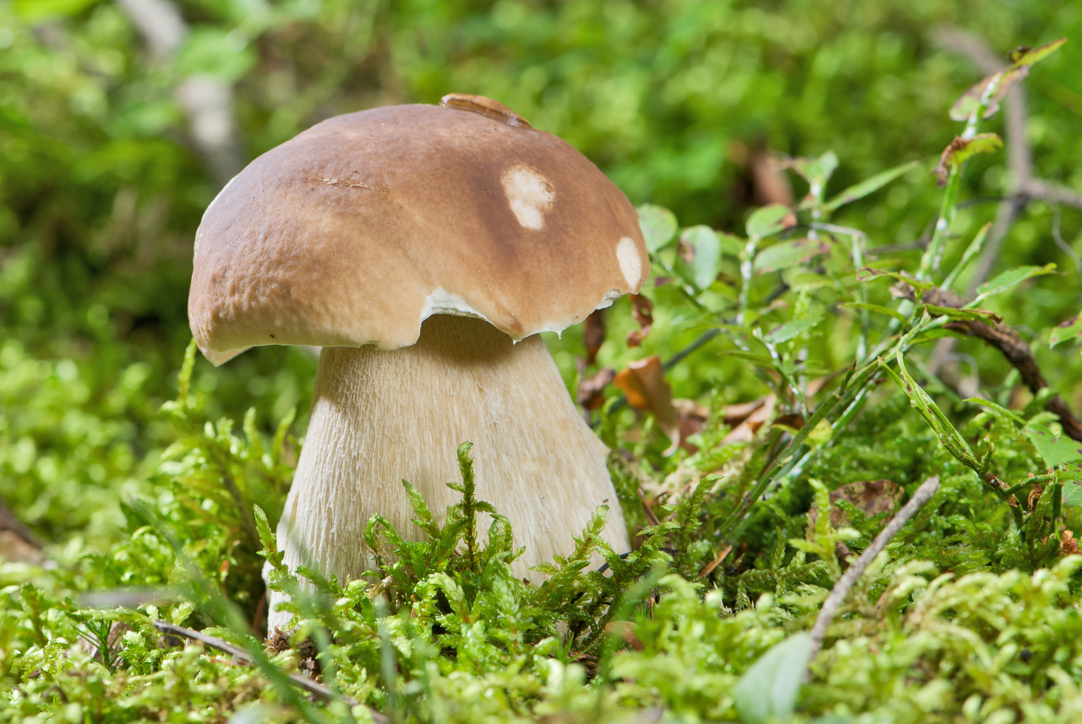 Boletus edulis is an edible mushroom in the Basidiomycete phylum. The fruiting body of the specimen in the picture has been growing for about four days and is about 130 mm tall.